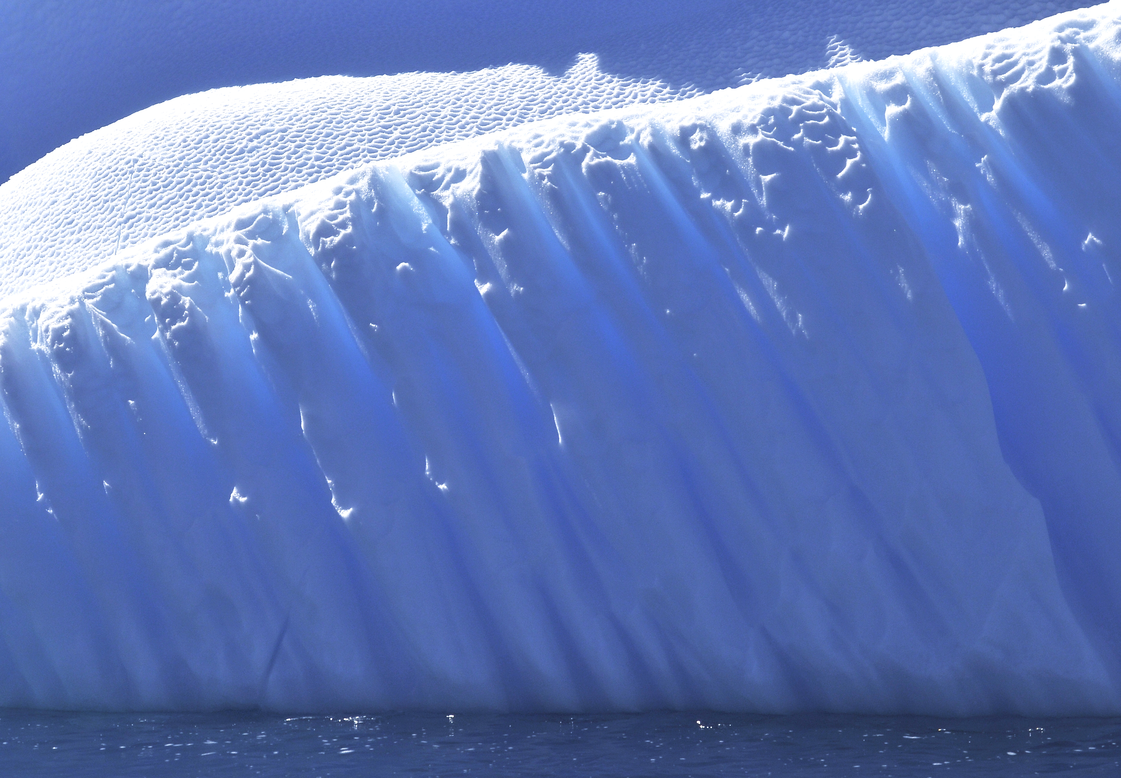 A detail of an iceberg. South of Foyn Harbor (between the Nansen Island and the Antarctic Peninsula), South Shetland Islands, Antarctica